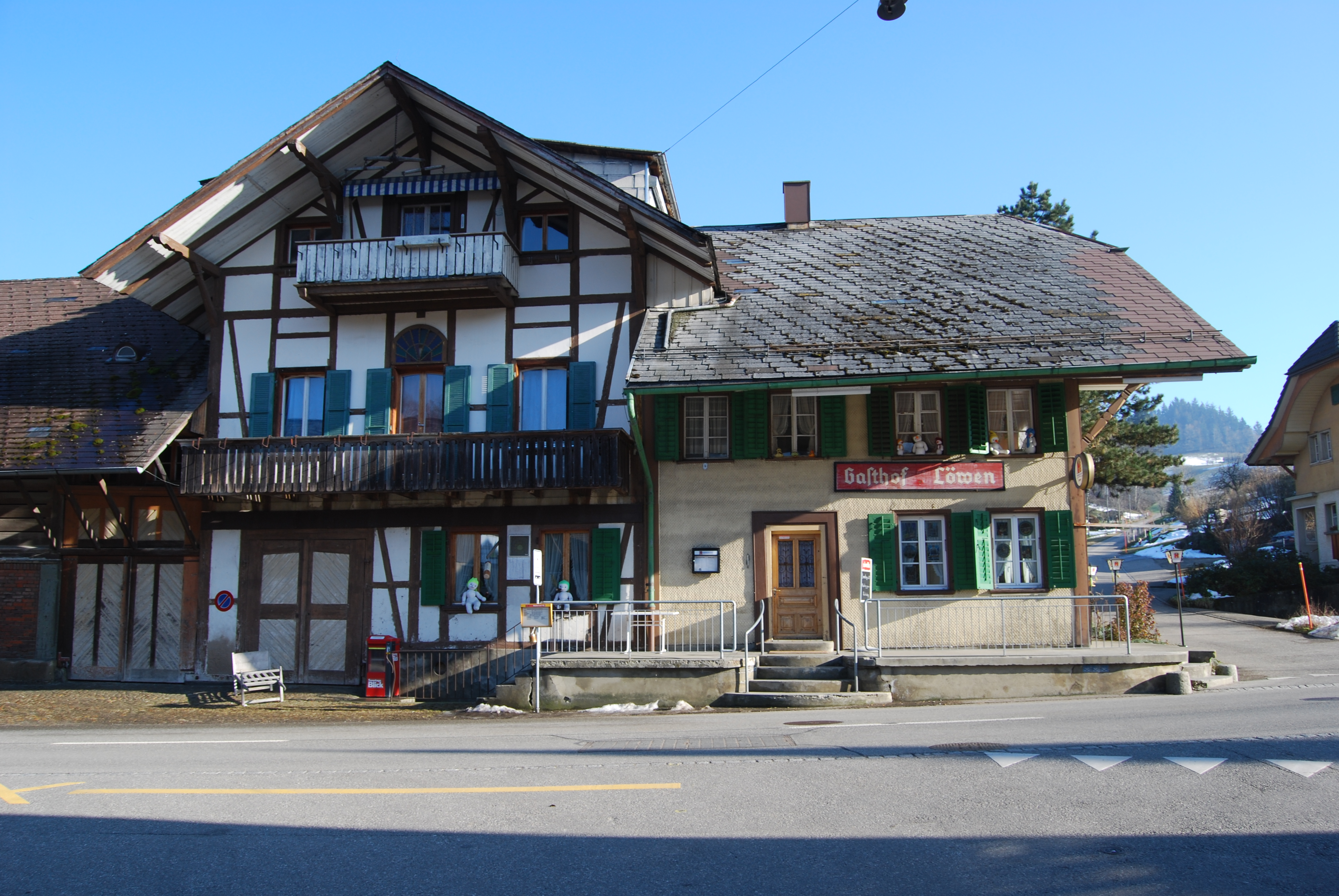 Walterswil, canton of Bern, SwitzerlandEsperanto: Walterswil, Kantono Berno, Svislando